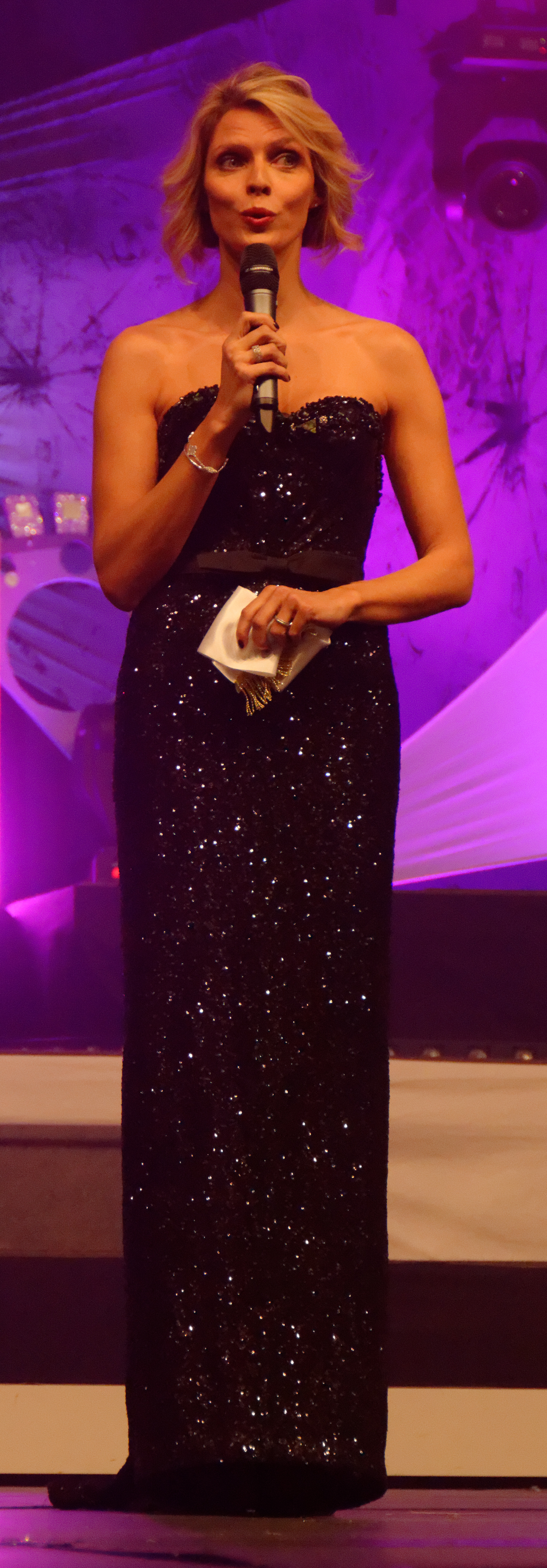 Personality rights warningAlthough this work is freely licensed or in the public domain, the person(s) shown may have rights that legally restrict certain re-uses unless those depicted consent to such uses. In these cases, a model release or other evidence of consent could protect you from infringement claims.